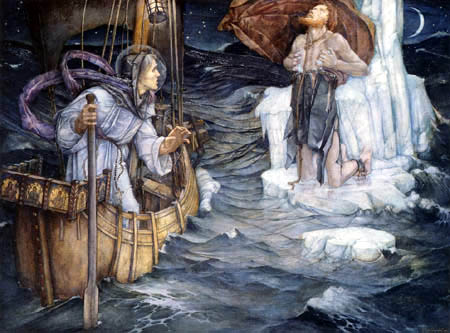 The voyage of St Brendan